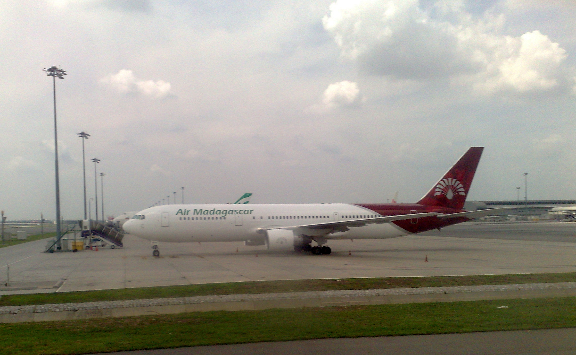 Air Madagascar Boeing 767-300ER at Suvarnabhumi International Airport, Bangkok.